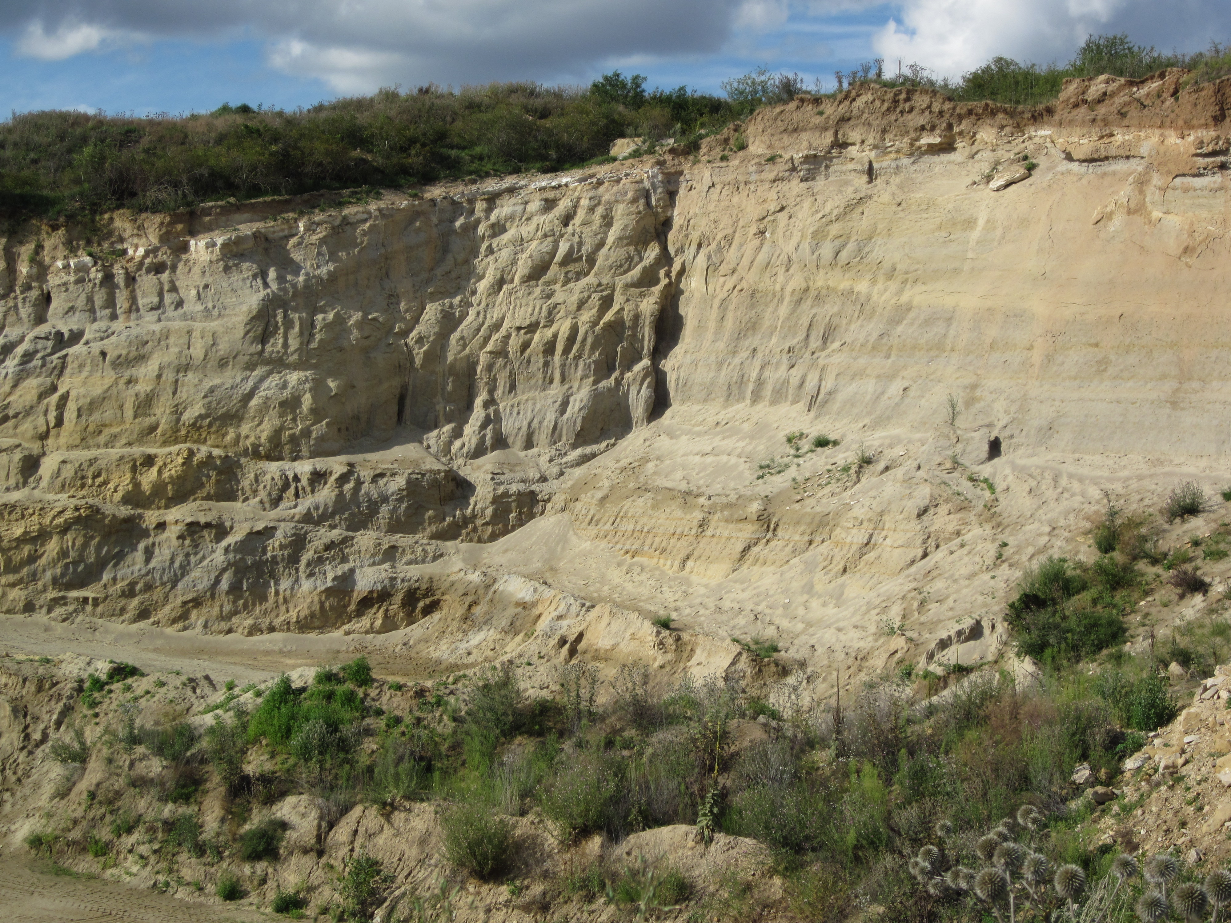 View at sand pit (Alzey Formation, Early Oligocene) in which the fossil sea cliff at Steigerberg hill occurs. The fossil sea cliff proper is not visible. Mainz Basin, Rhineland-Palatinate, Germany